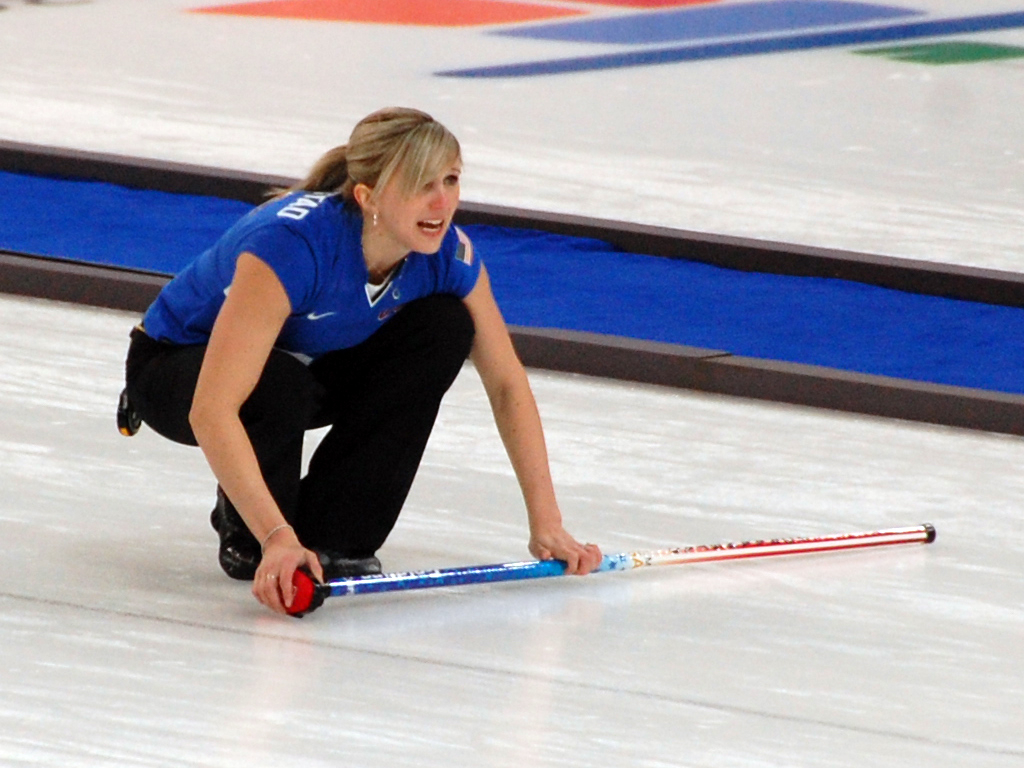 United States curler Nicole Joraanstad at the 2010 Winter Olympics in Vancouver